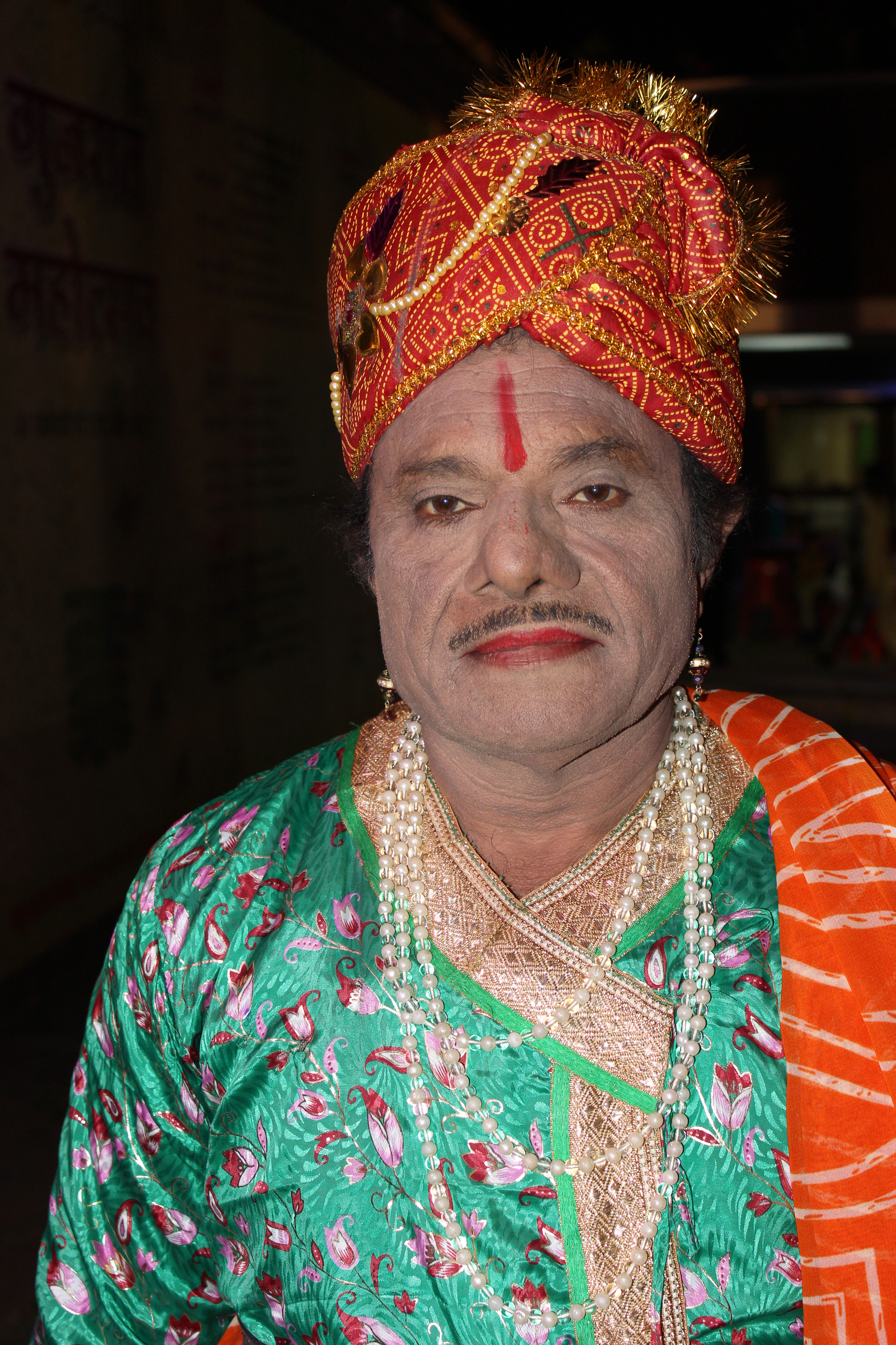 Bhavai Artist,popular folk theater form of Gujarat, India.